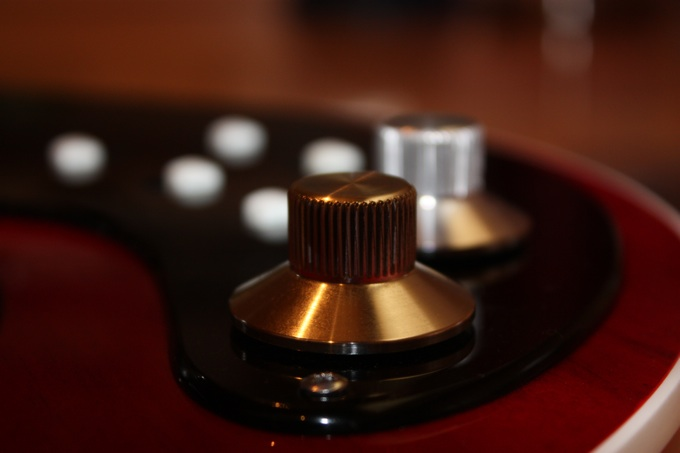 Detail of a Red Special knob.